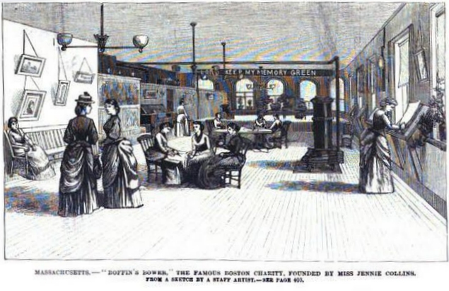 Artist's depiction of Boffin's Bower, No. 1031 Washington Street, Boston, which appeared in Frank Leslie's Illustrated Newspaper on August 6, 1887.